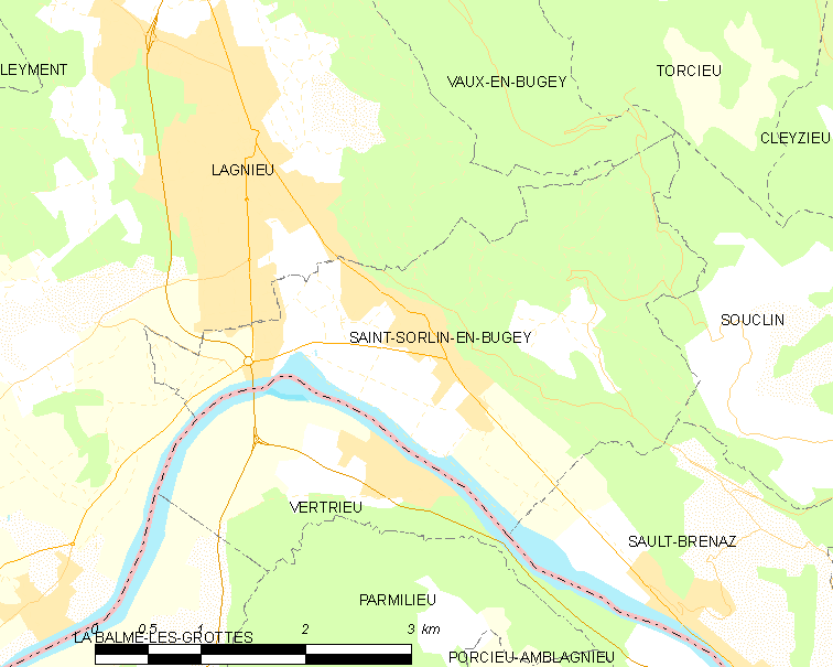 Map of French commune: Saint-Sorlin-en-Bugey Map commune FR insee code 01386.png